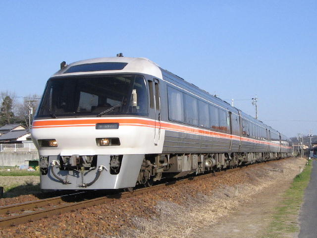 JR CentralSeries 85 Diesel Multiple Unit.In Taita Line. During Koizumi Station and Nemoto Station.